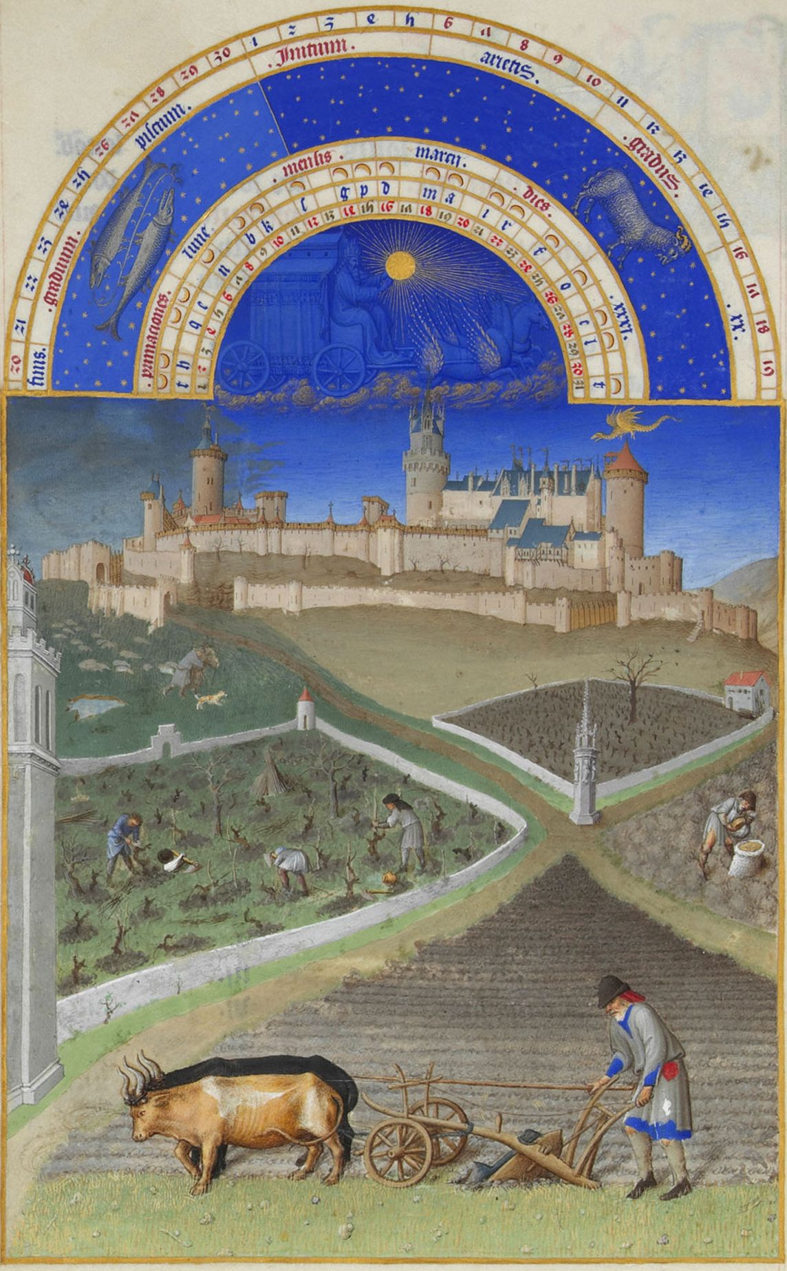 In the foreground, a peasant ploughs a field with a plough pulled by two oxen, the man steering them with a long goatee. Winegrowers prune the vine in an enclosure on the left and plough the soil with a hoe to aerate the soil: these are the first ways of the vine. On the right, a man leans over a sack, probably to draw some seeds that he will then sow. Finally, in the background, a shepherd takes the dog that guards his flock. In the background is the castle of Lusignan (Poitou), property of the Duke of Berry who had it modernized. On the right of the picture, above the Poitou tower, a winged dragon representing the fairy Mélusine.